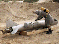 A US Air Force EOD specialist, wearing breathing apparatus, special protective apron, and gloves, disassembles an Iraqi missile, believed to be a Kh-28 (AS-9 'Kyle') in April 1991